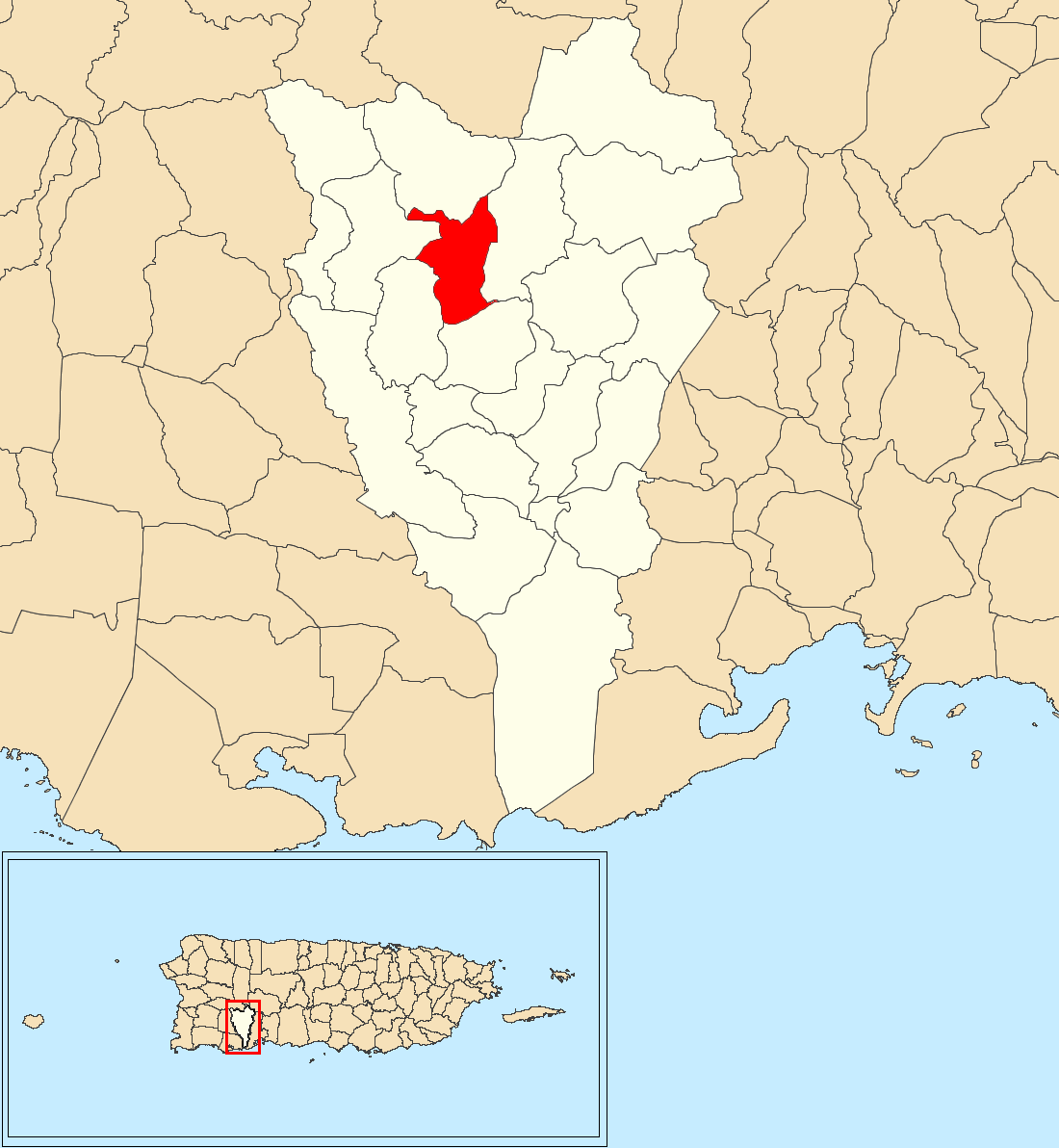 Vegas, Yauco, Puerto Rico locator map